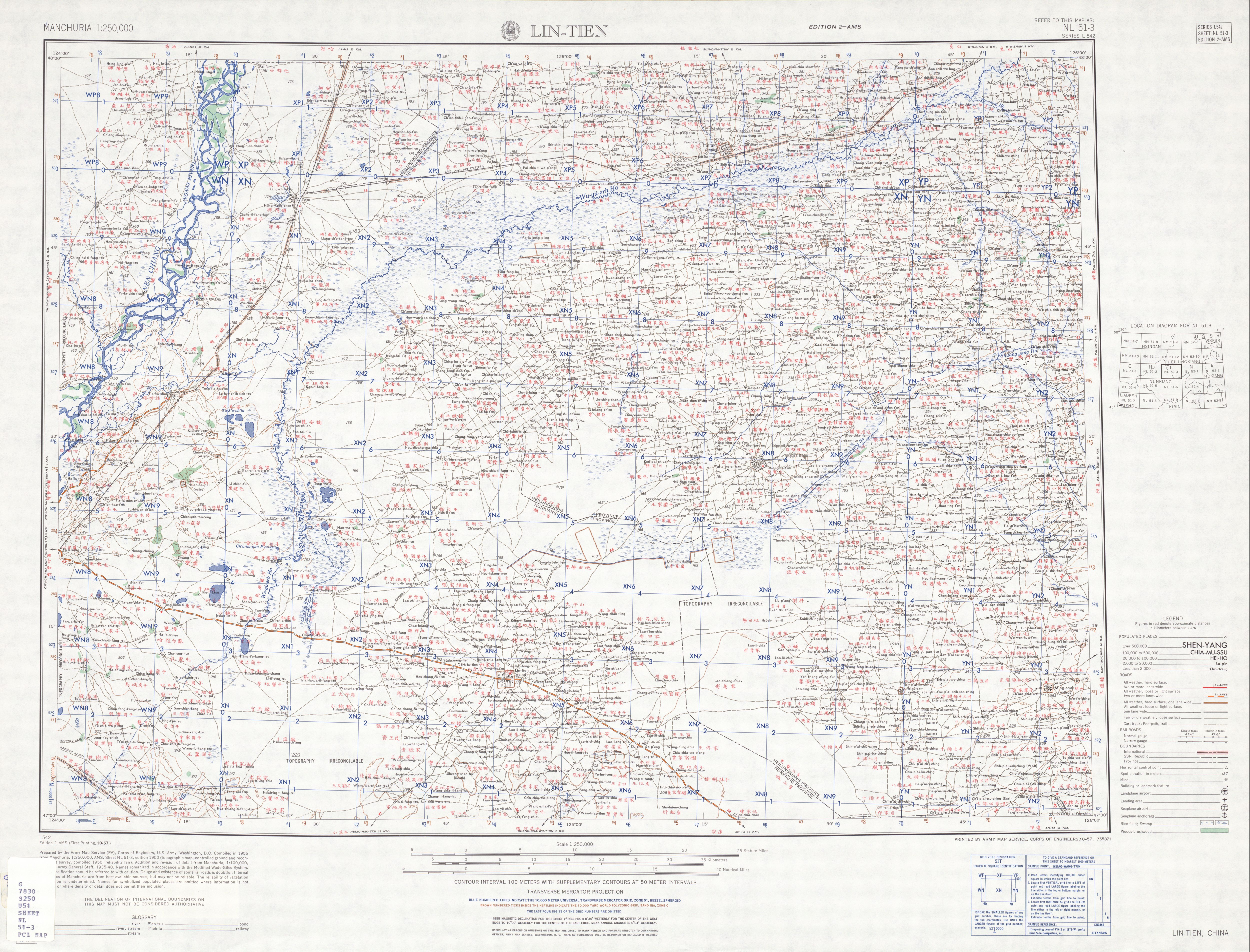 Manchuria AMS Topographic Maps